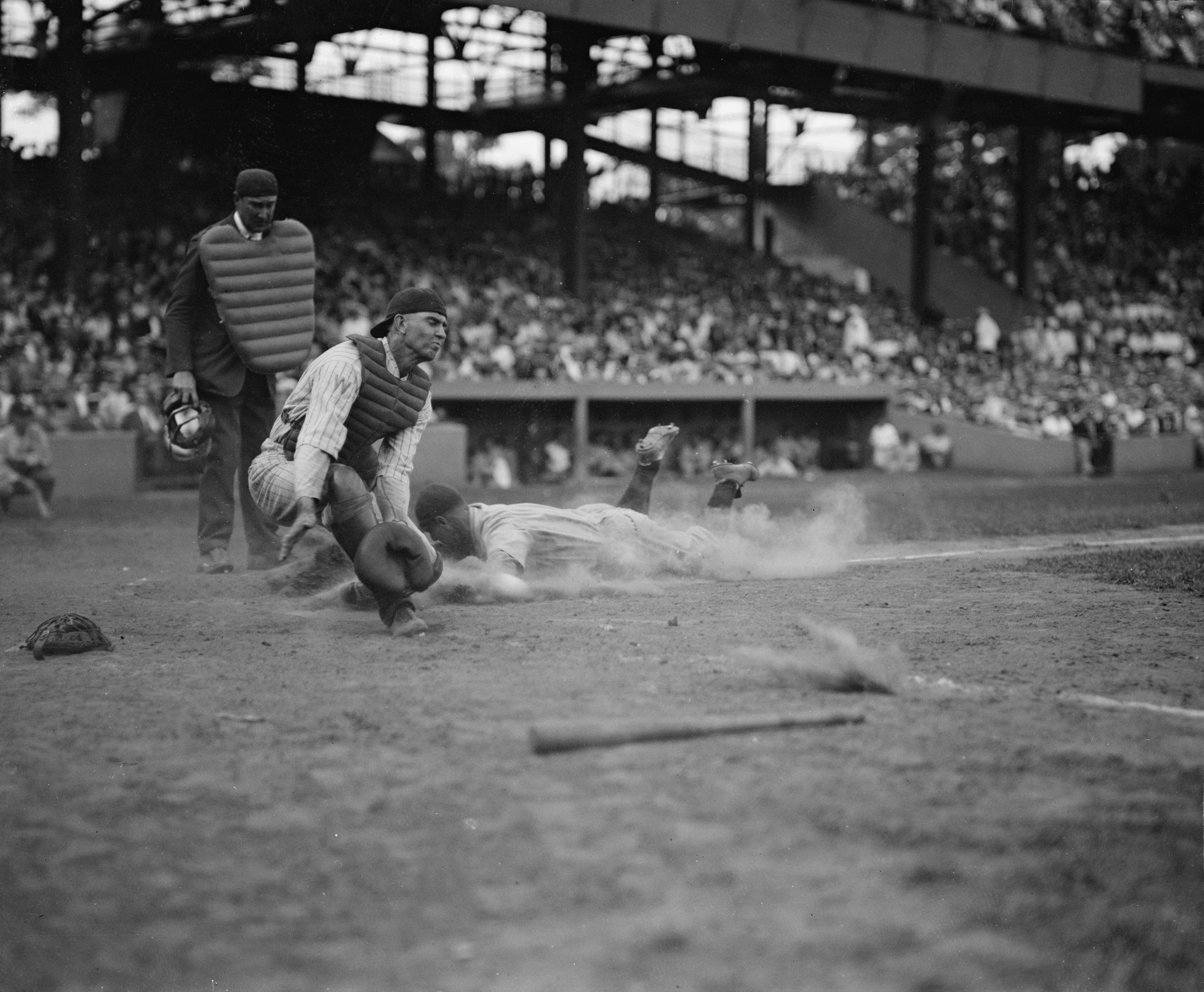 "Yankees Lou Gehrig scores head first in 4th inning as Joe Harris' throw gets away from catcher Hank Severeid of Senators. Umpier is Nallin. Yanks beat Senators 3-2 (baseball)" Photo courtesy of the Library of Congress. This file has an extracted image: File:Dick Nallin 1925.jpg.